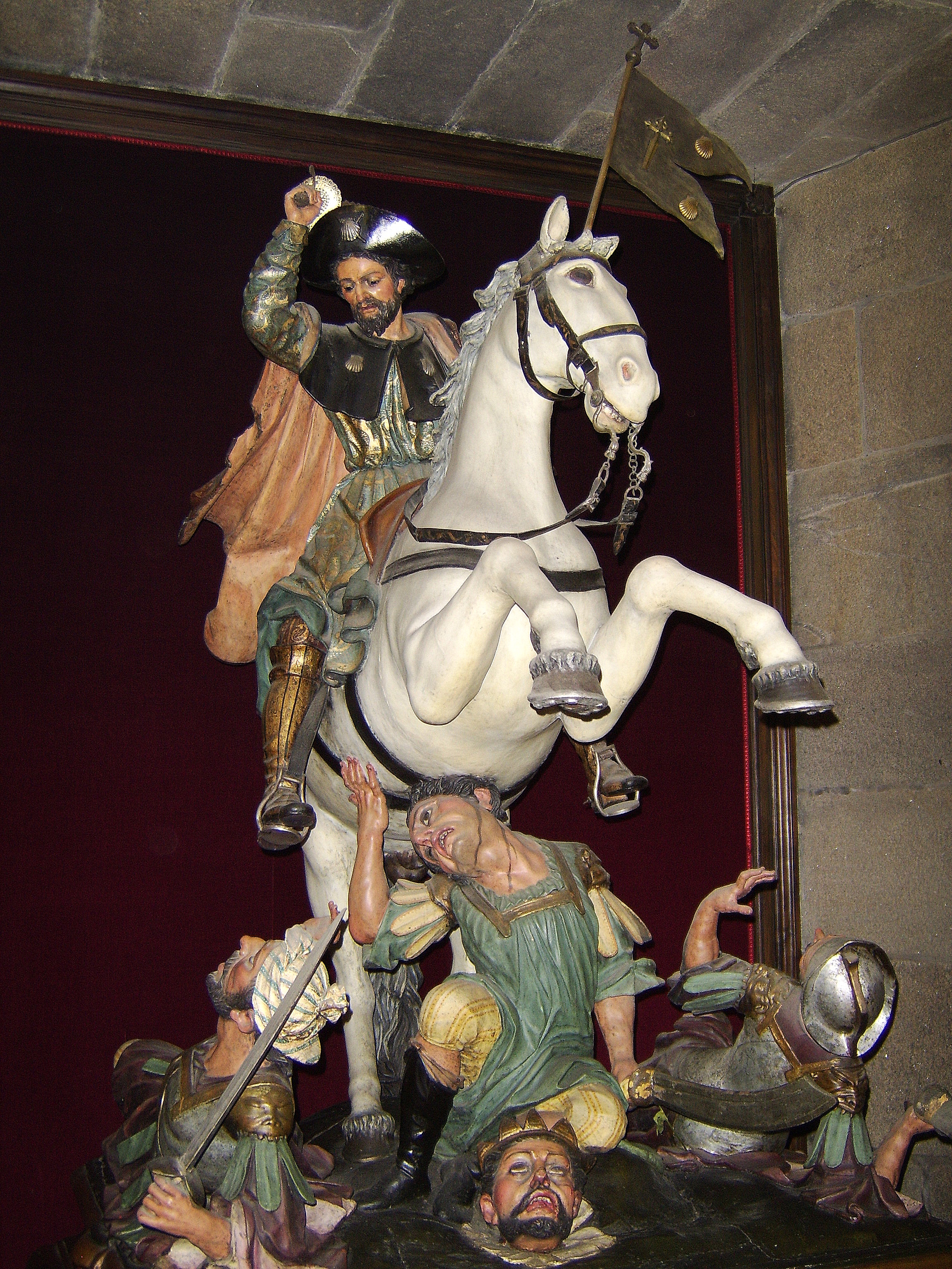 St. James the Moor Slayer, Santiago de Compostela